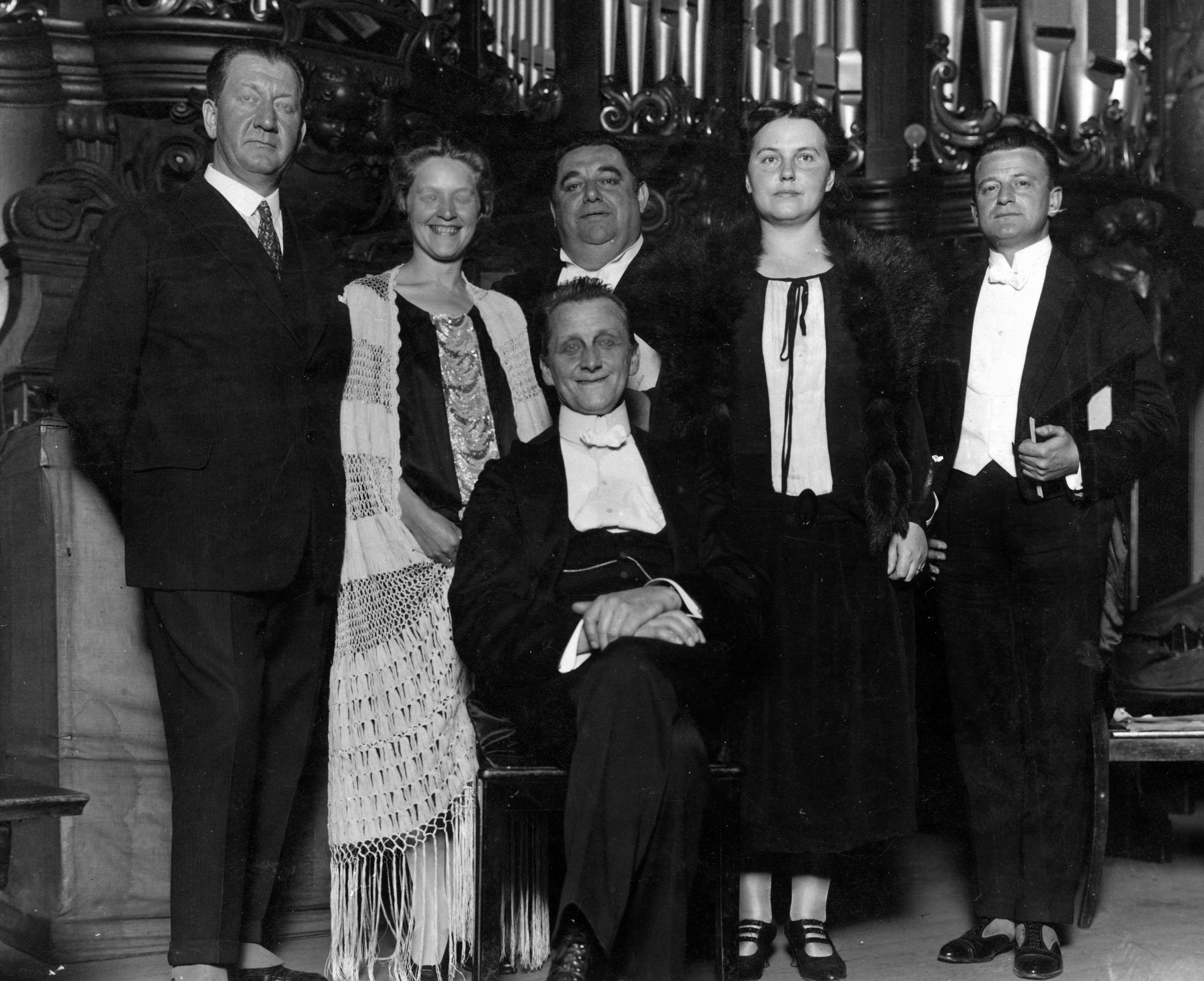 Bruno Kittel (sits, center) and performers of Judas Maccabaeus (Handel), Berlin (16.10.1926) Standing from left: Walter Kirchhoff (1879–1951), Rothballer (?), Albert Fischer, Ebel-Wilva(?), Werner Liebenthal